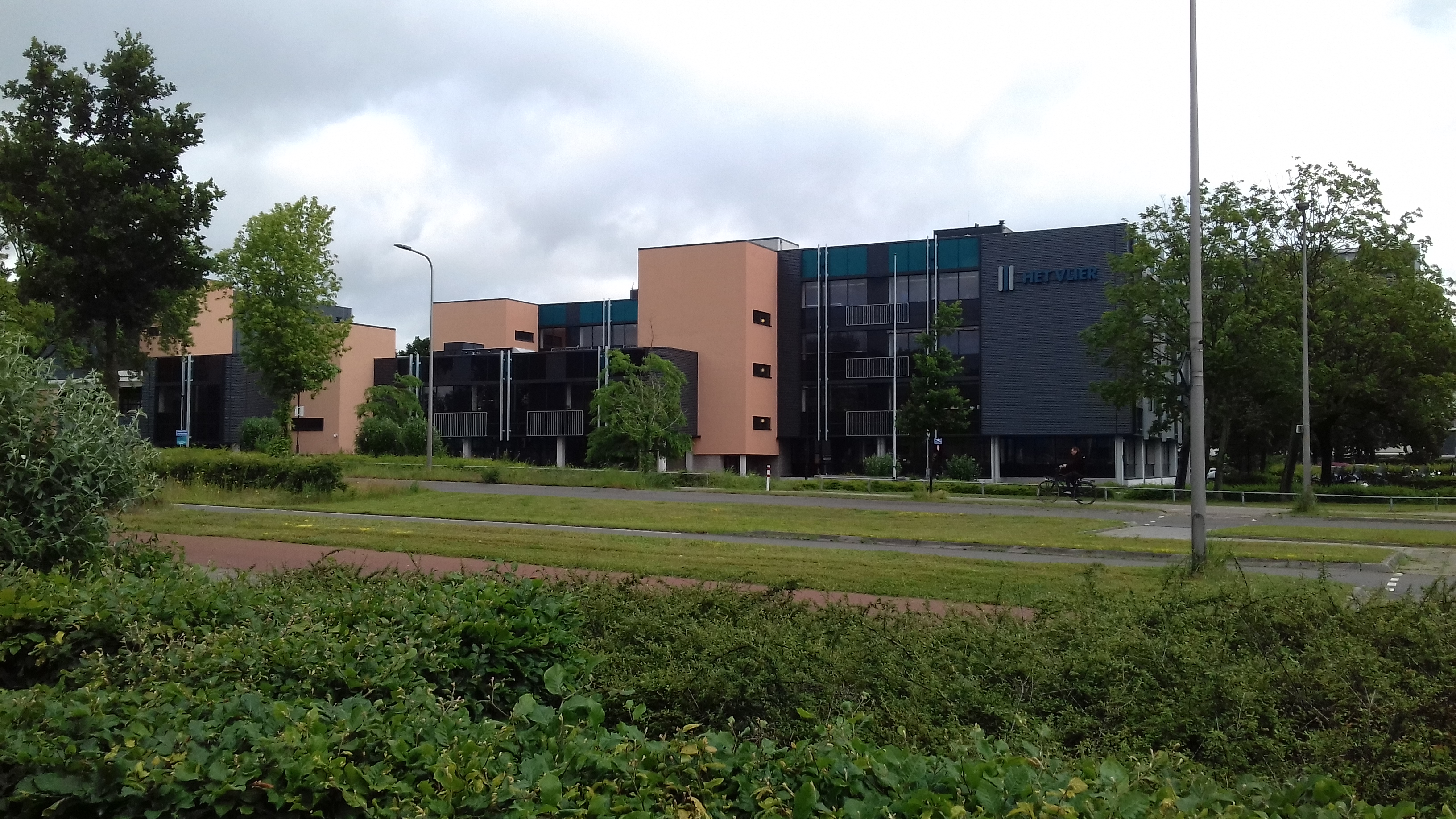 School building of the Etty Hillesum Lyceum location Het Vlier in Deventer, The Netherlands